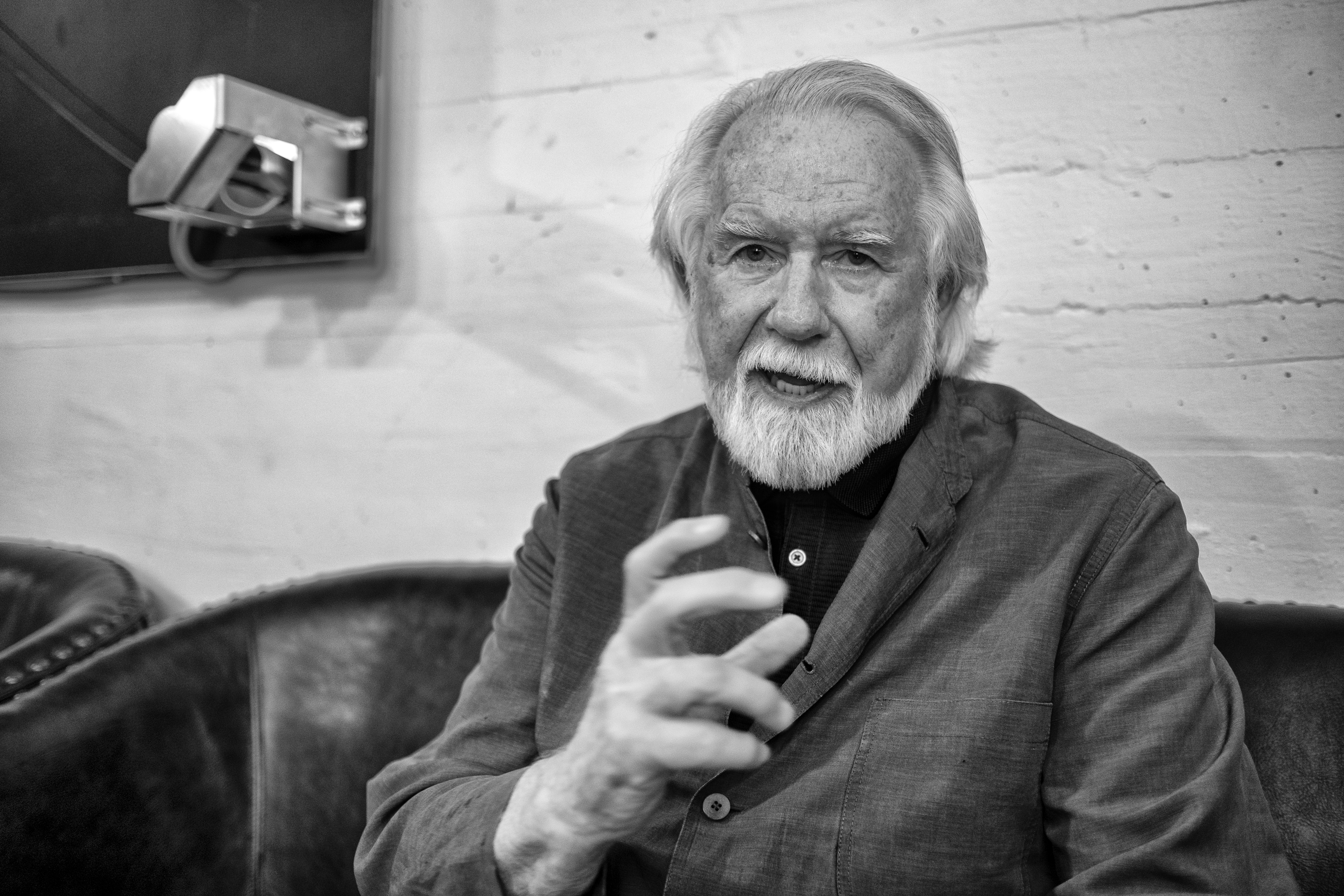 Alvy Ray Smith at the Interval in 2019 by Christopher Michel